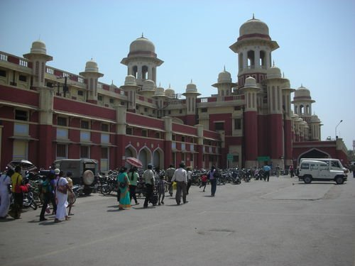 Rahul Sharma